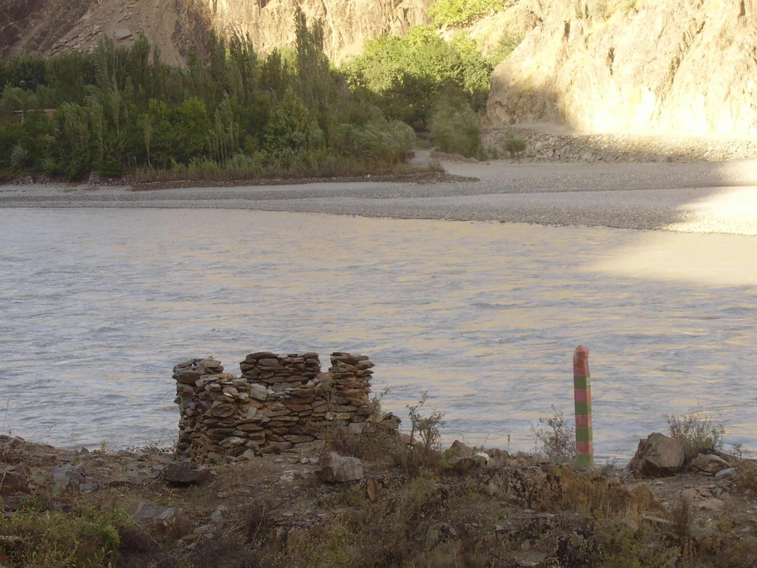 Tajikistan Afghanistan border divided by Panj River